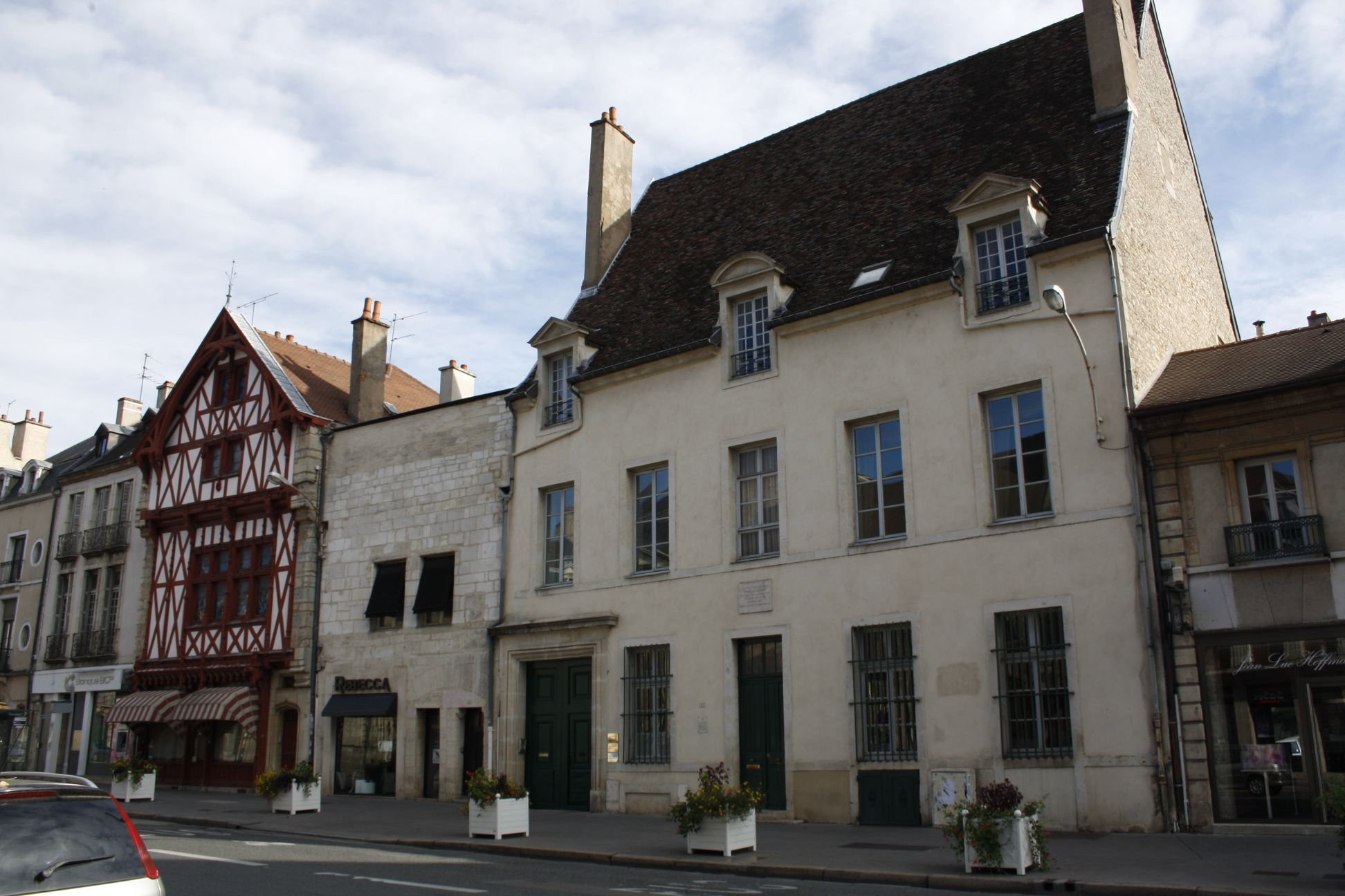 The house of Louis-Bernard Guyton de Morveau, on Place Bossuet in Dijon (Côte-d'Or, Bourgogne, France).